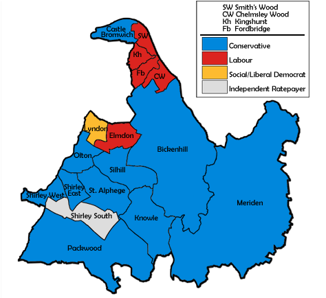 Ward map of Solihull Council with political colouring for the 1988 election.